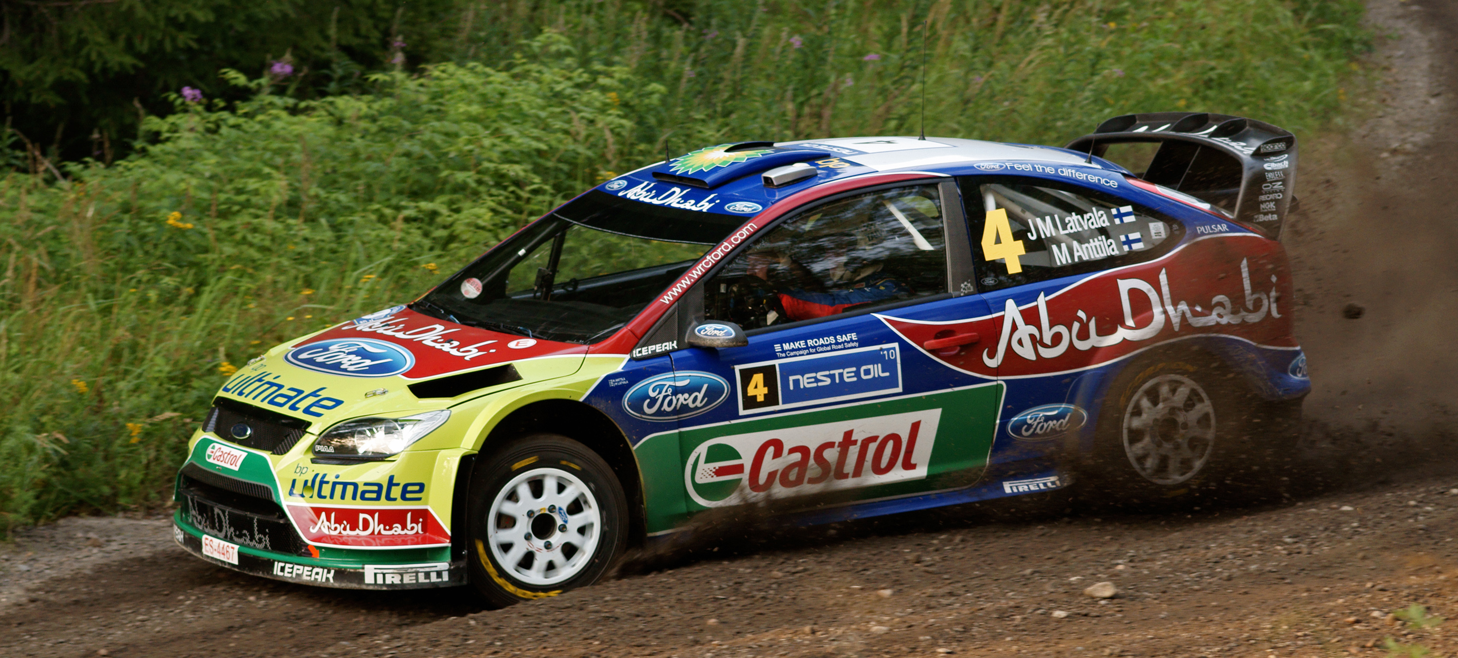 Jari-Matti Latvala driving at Laajavuori special stage, Rally Finland 2010.